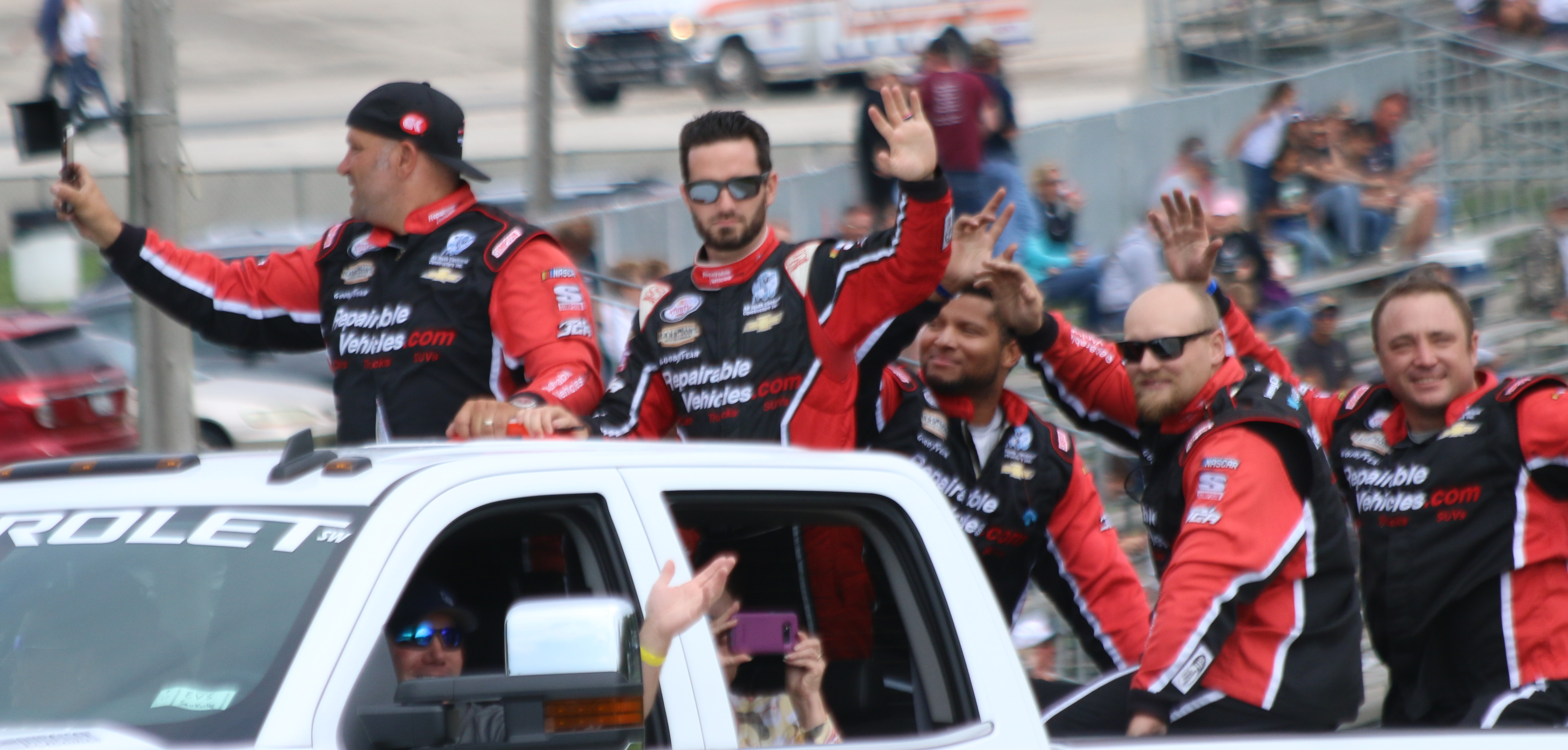 Jeremy Clements with his crew riding around the track during driver's introductions at Road America. It ended up being his first Xfinity series win that day.